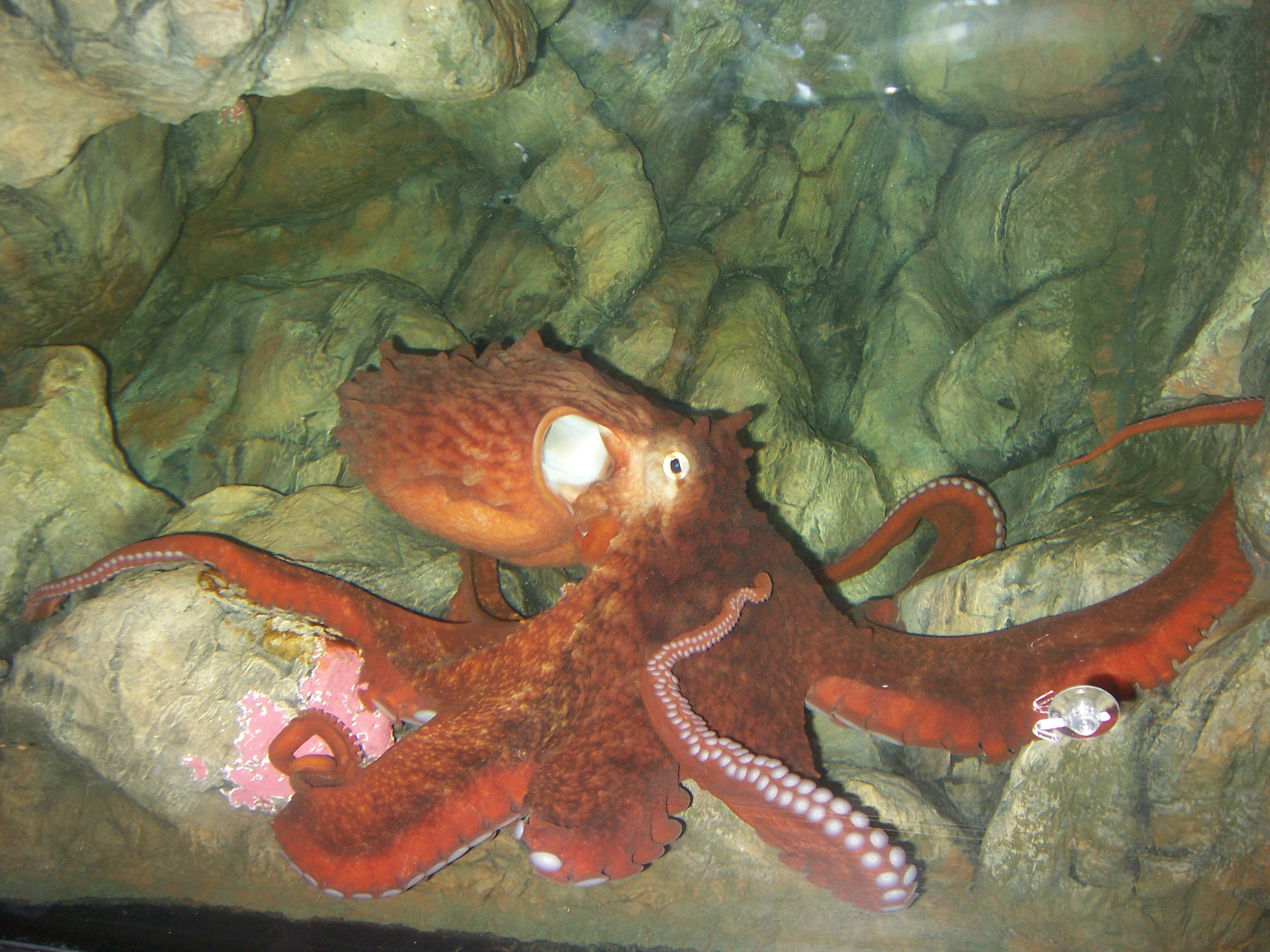 Enteroctopus dofleini at the national aquarium in Washington D.C.